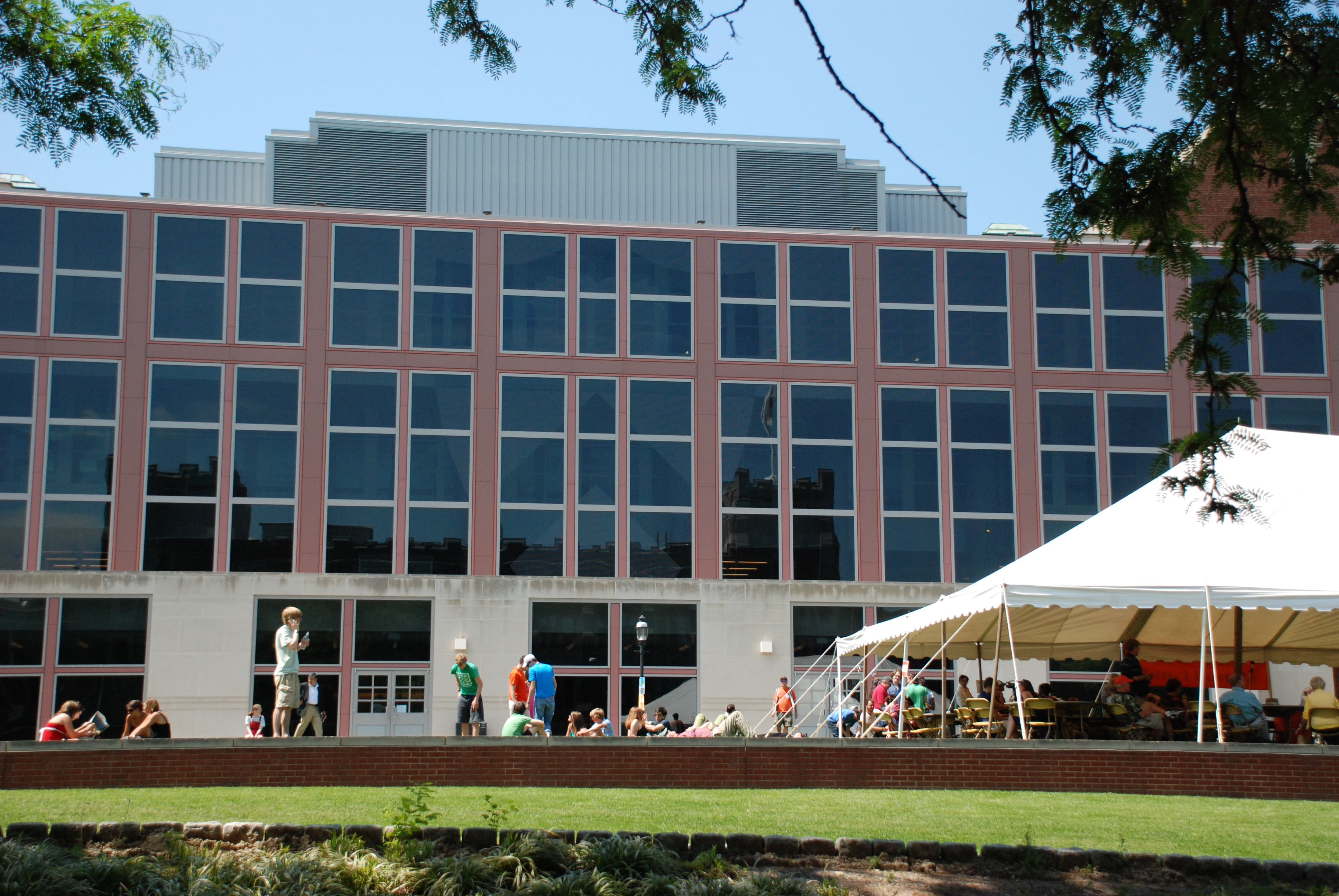 Princeton Frist Campus Center